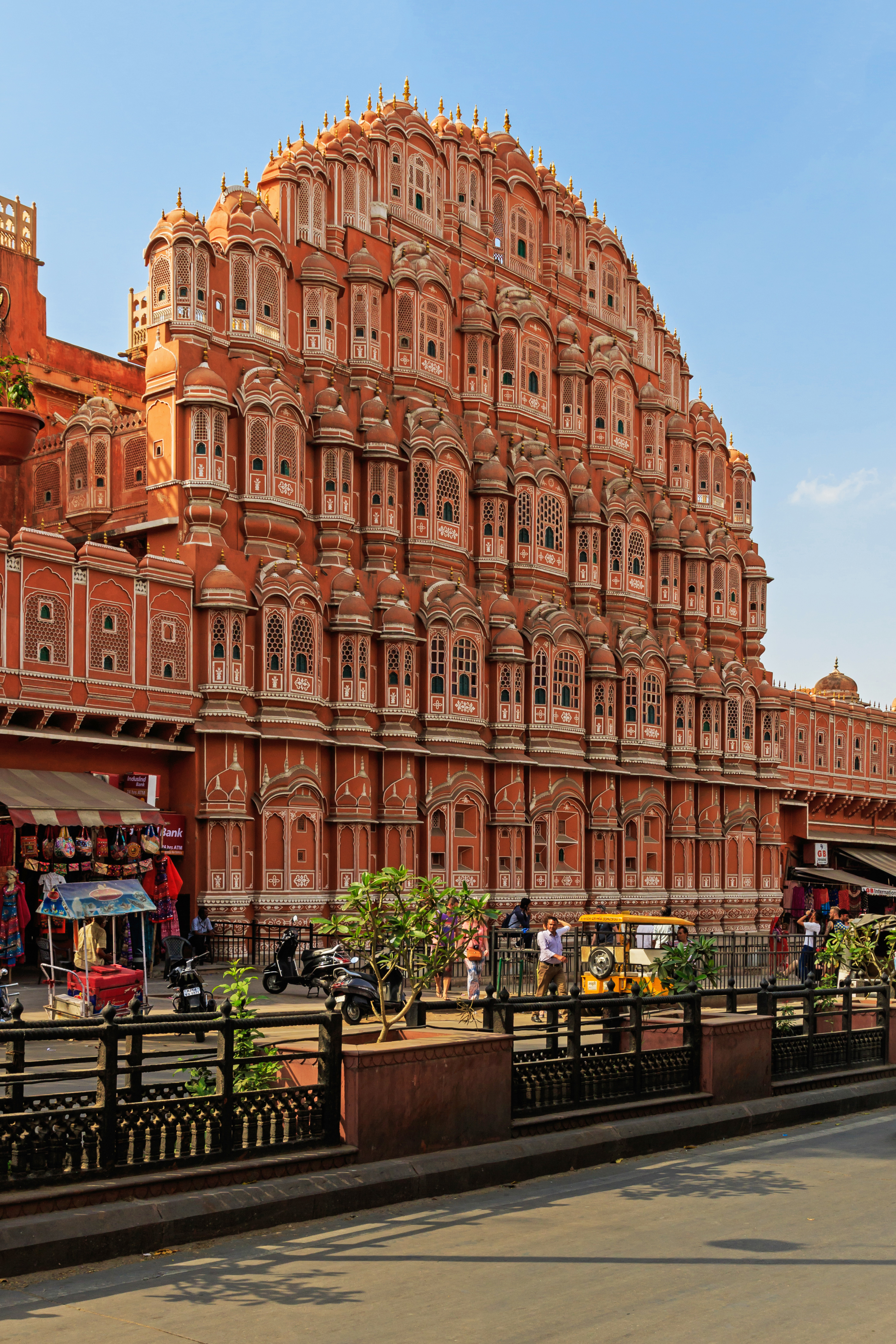 Hawa Mahal (Palace of the Winds) in Jaipur, India